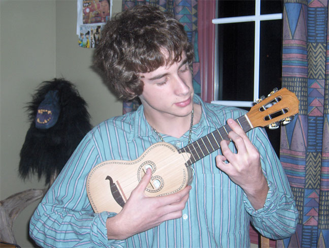 Took this picture myself. It's my friend playing his cavaquinho.